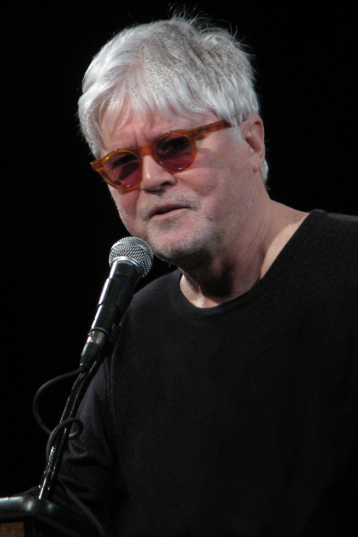 Michael Harris speaking at the Registry Theatre in Kitchener, Ontario